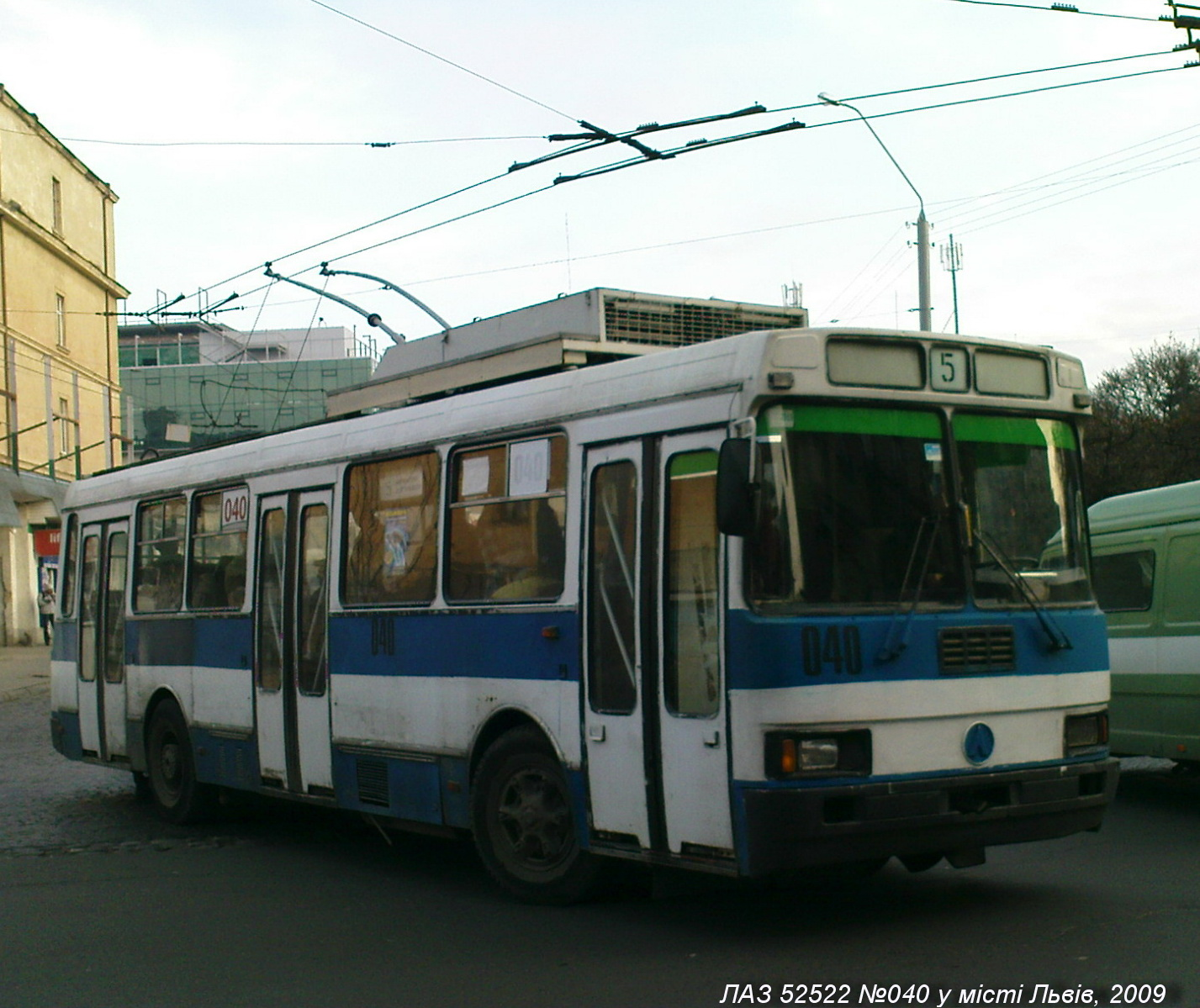 LAZ 52522 N040 in Lviv